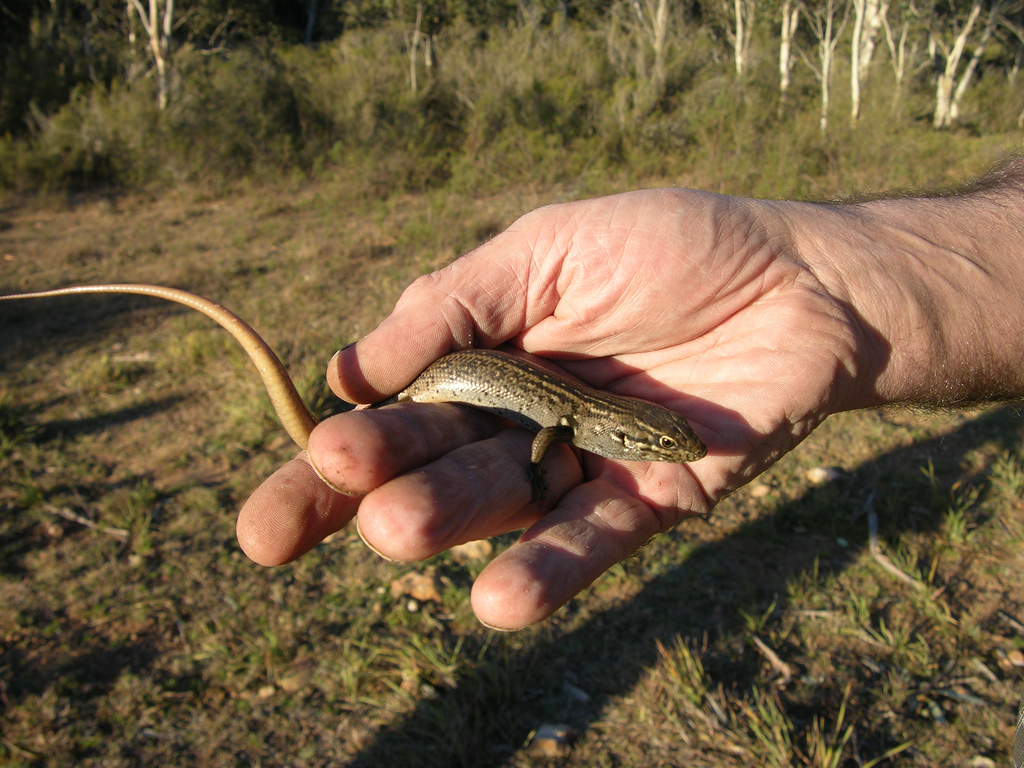 Egernia whitii White's Skink